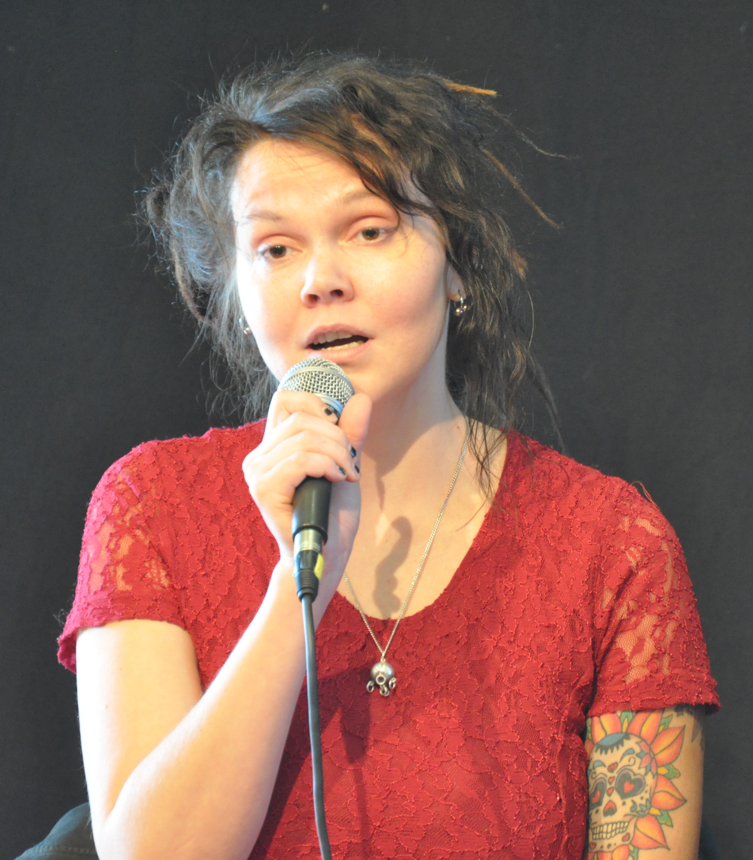 Finnish writer Katja Kettu at Turku Book Fair, 2011.